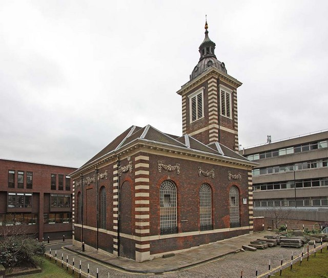 St Benet Paul's Wharf, Queen Victoria Street, London EC4